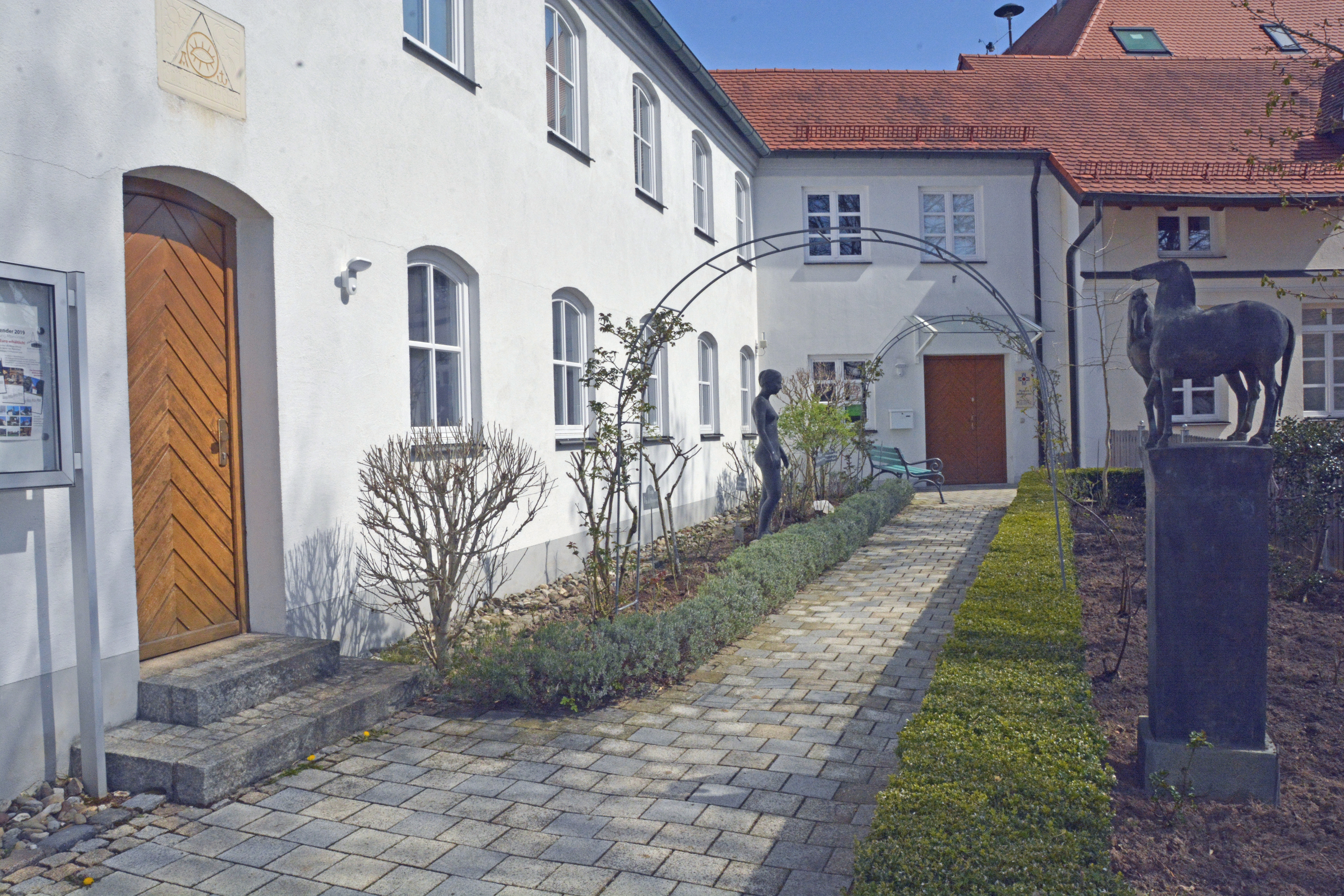 Museum Altomuenster